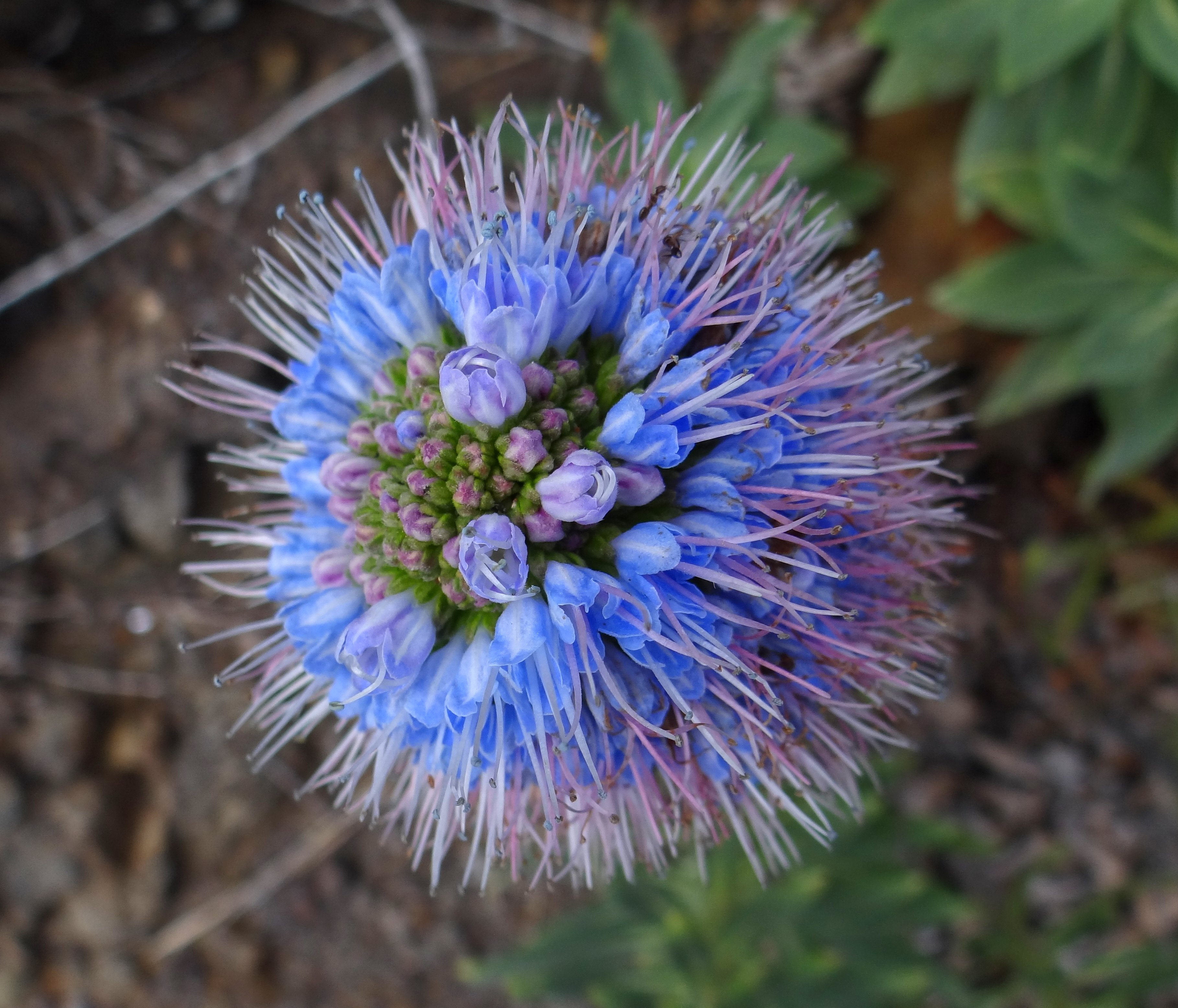 Echium candicans, commonly known as pride of Madeira, a native of Madeira island, Portugal.